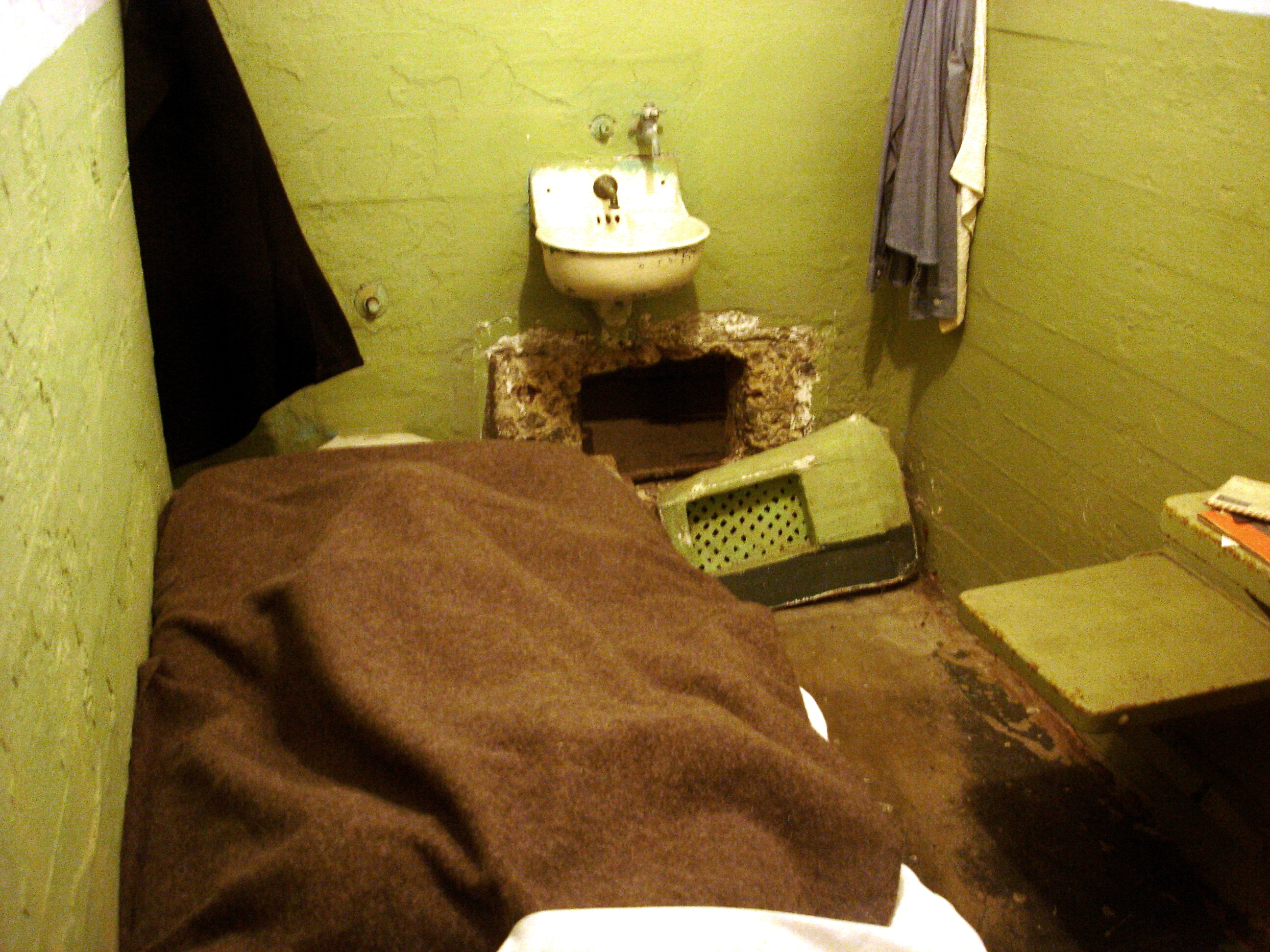 Chiseled air vent in one of the cells on Alcatraz that led to the utility corridor.